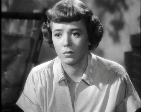 Screenshot from trailer for the movie In a Lonely Place (1950), featuring stars Gloria Grahame and Humphrey Bogart. Jeff Donnell as Sylvia Nicolai.